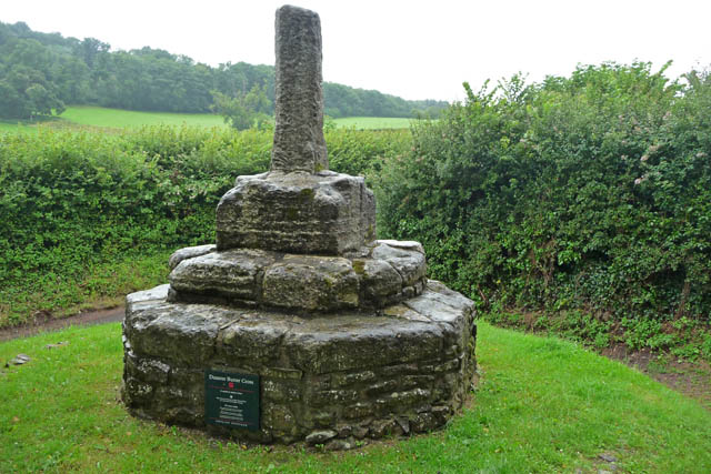 Dunster Butter Cross, Somerset. The stump of a late 14th- or early 15th-century cross, beside a lane some way from the centre of the village. Some sources indicate that this was relocated, hence its out of the way site.